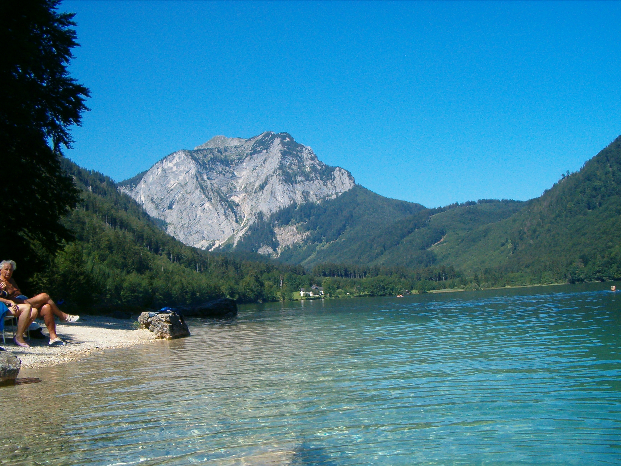 Foreward Langbathsee (lake) with Jagdschloss (hunting seat) before Mount Brunnkogel; Salzkammergut, Austria